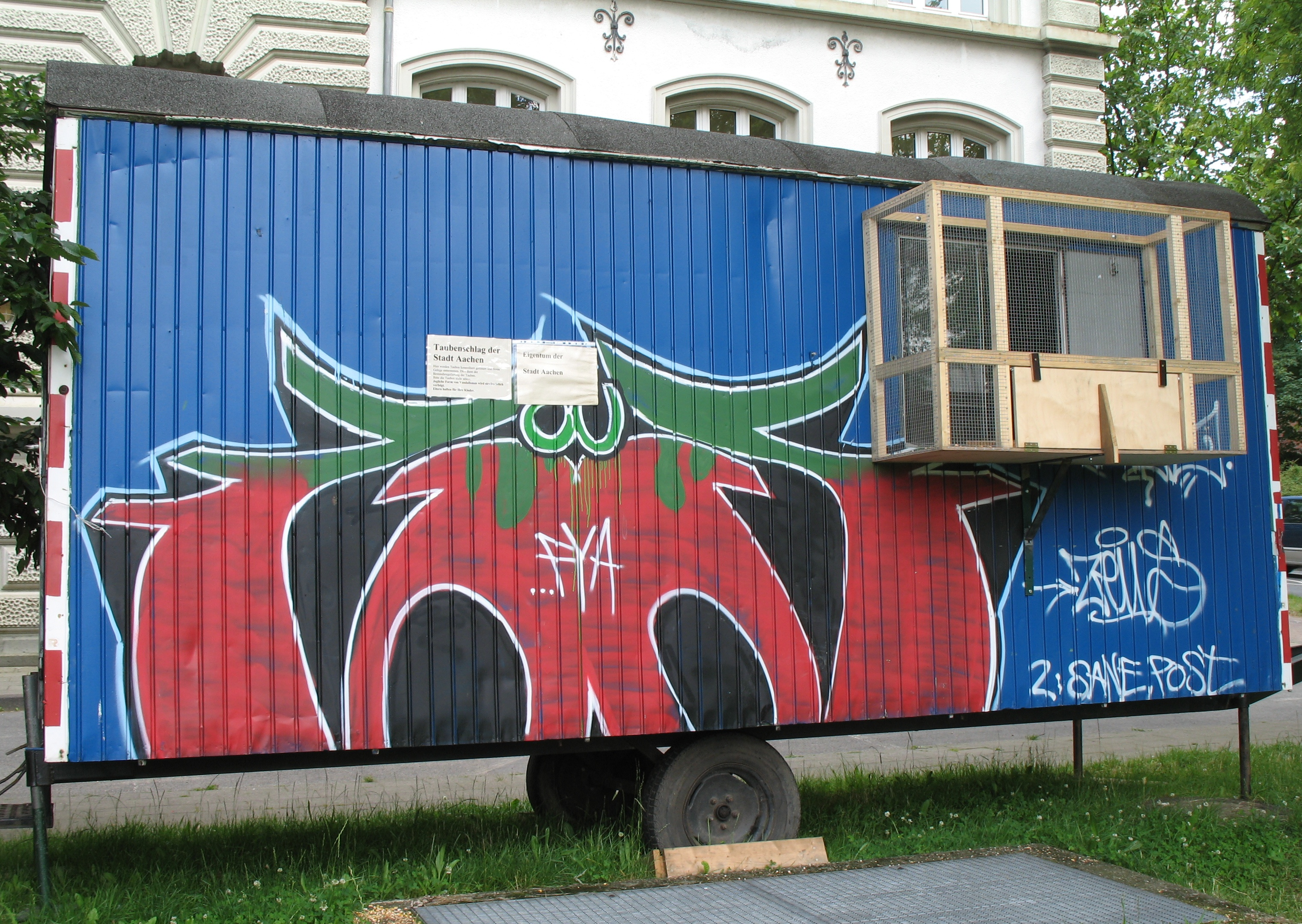 Experimental dovecote of the city of Aachen in an old construction trailer